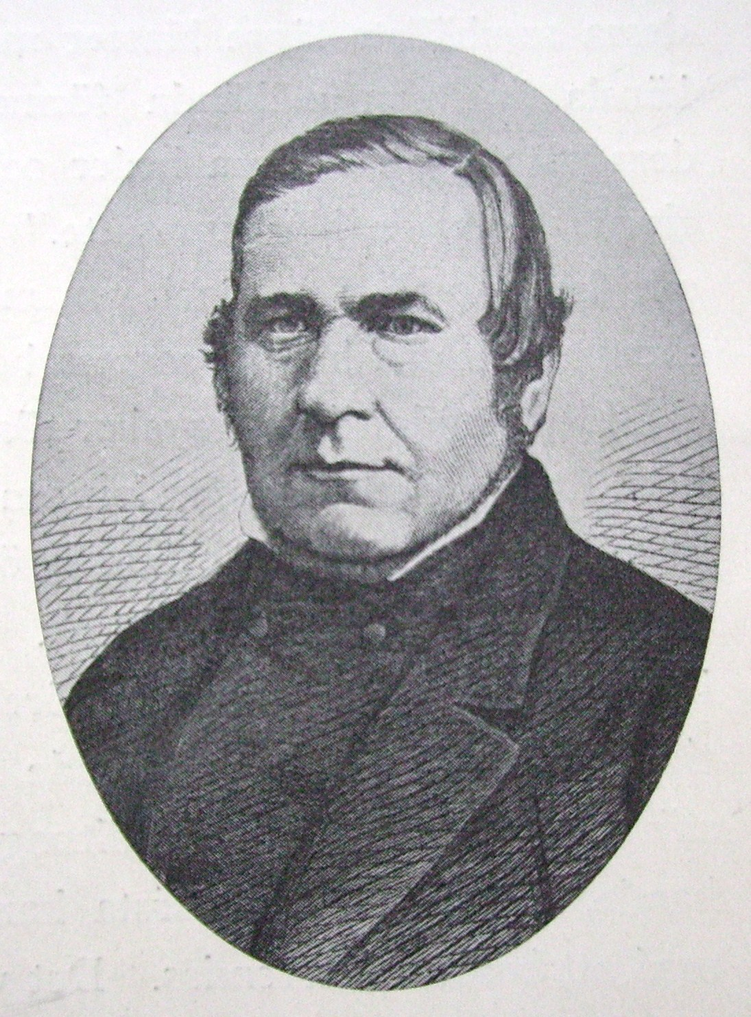 Picture of drawing of Sven Nilsson i Österlöv, Swedish politician